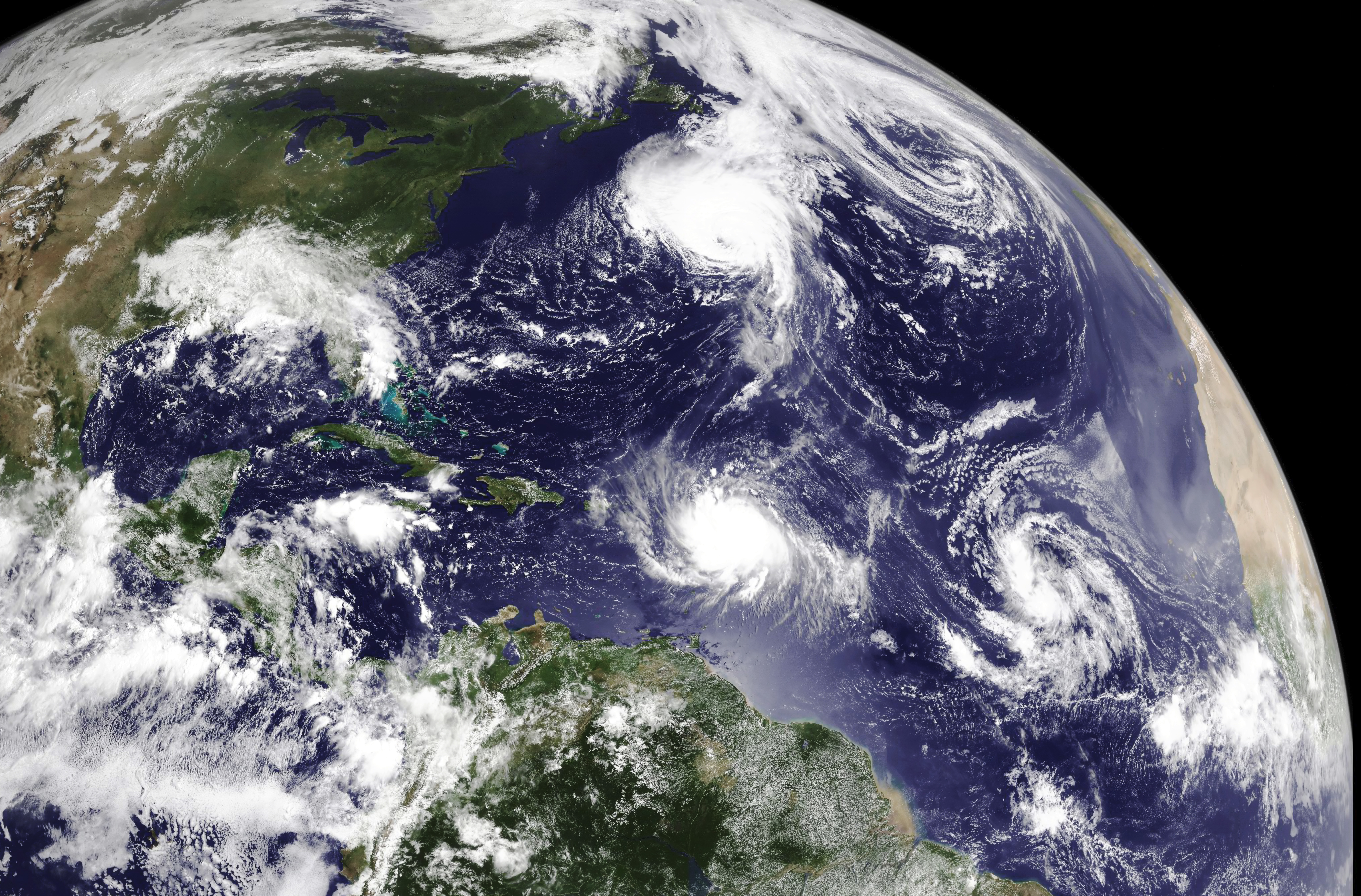 A train of tropical cyclones are forming in the Atlantic Ocean as the season starts to ramp up.